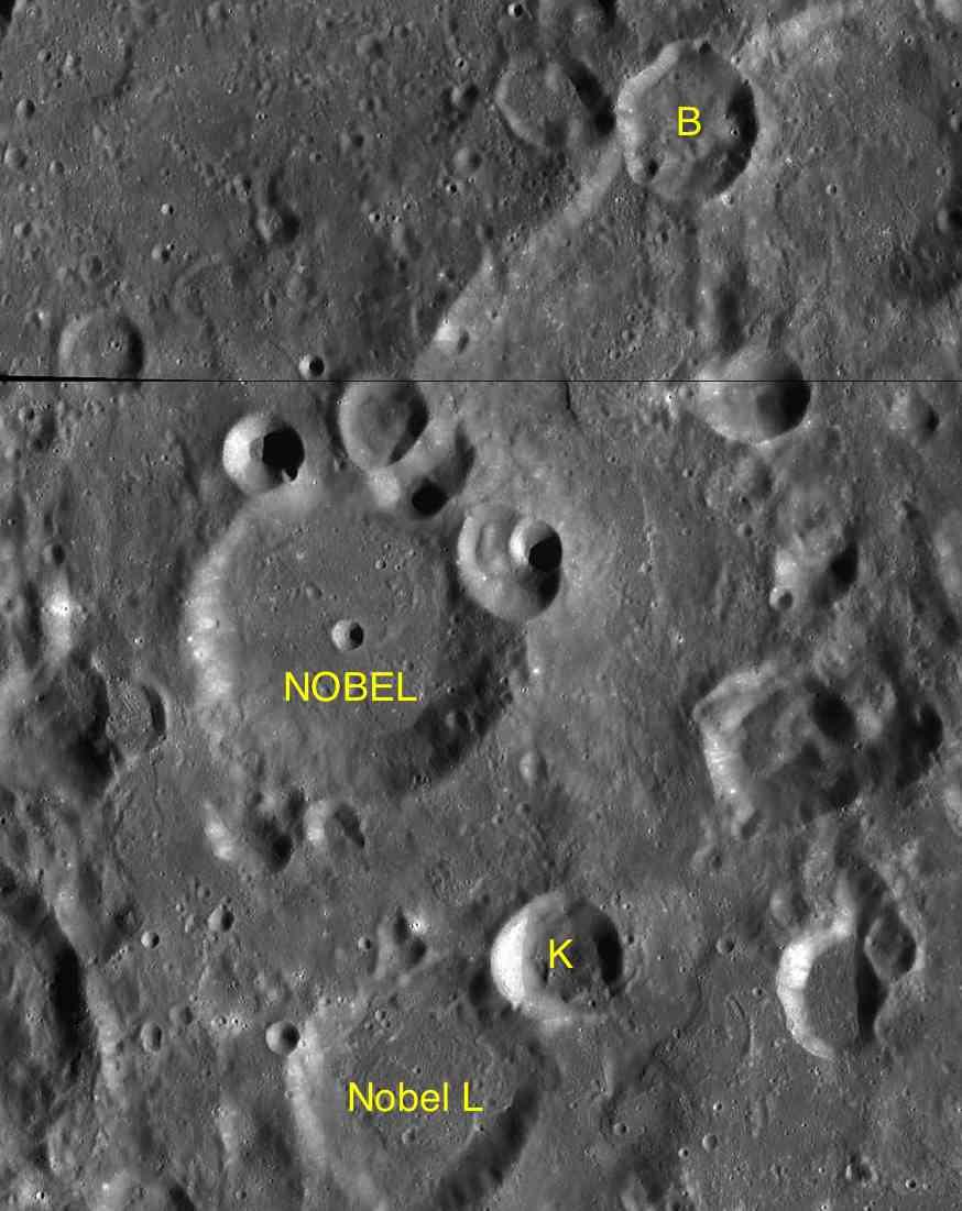 Parts of the charts LAC-54, LAC-72 used for the presentation